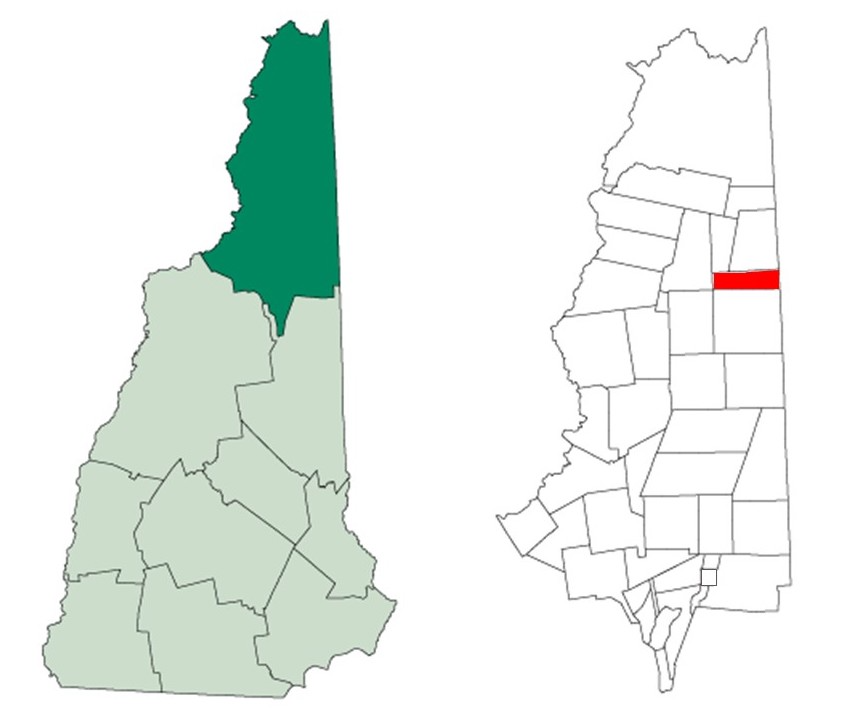 Map of Coos county, New Hampshire, highlighting the location of Wentworth's Location, a township.